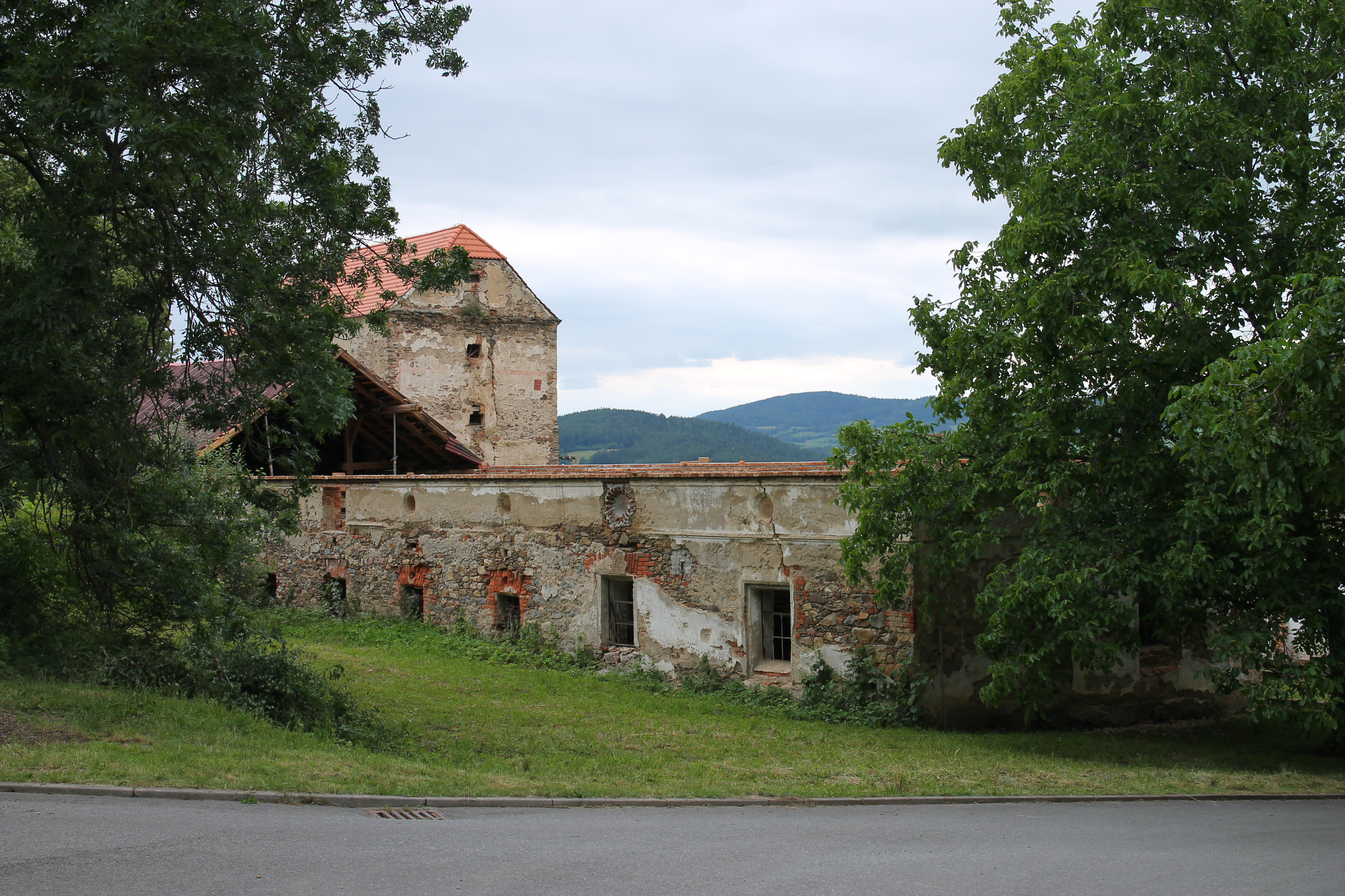 Fortified mansion in Smrčná (Prachatice District)